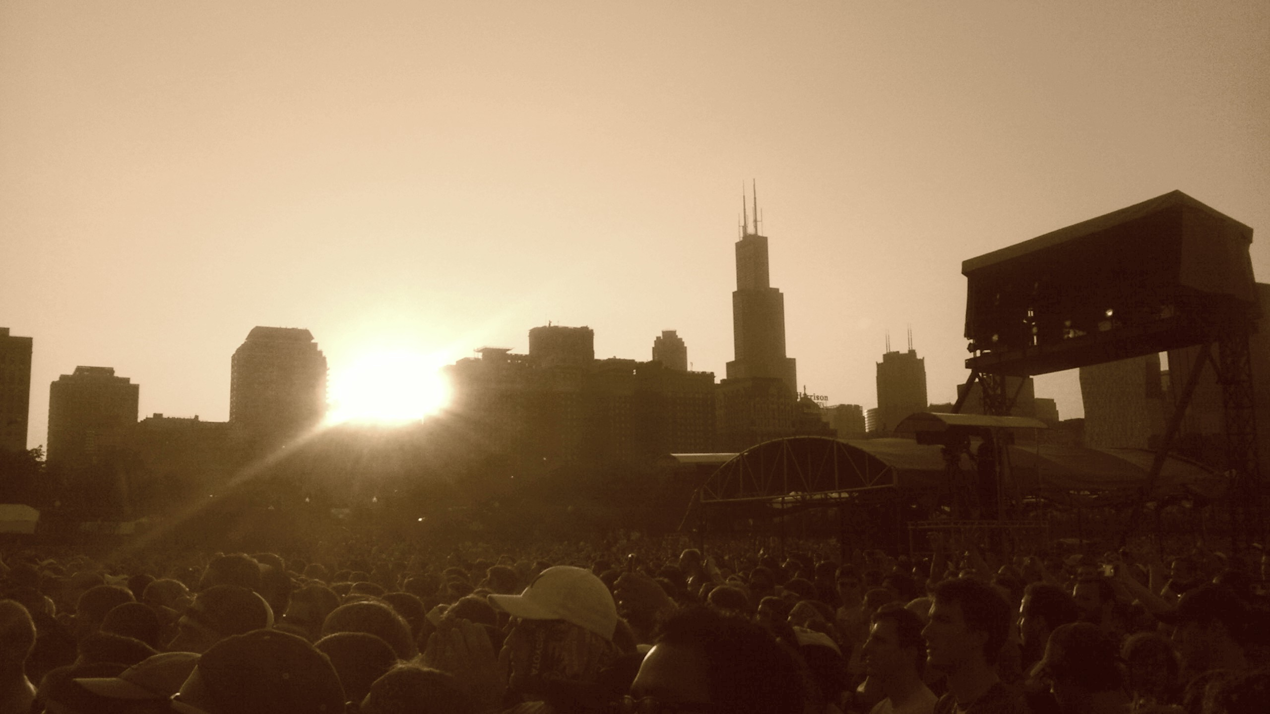 Lollapalooza 2011 in Grant Park - Chicago, Illinois